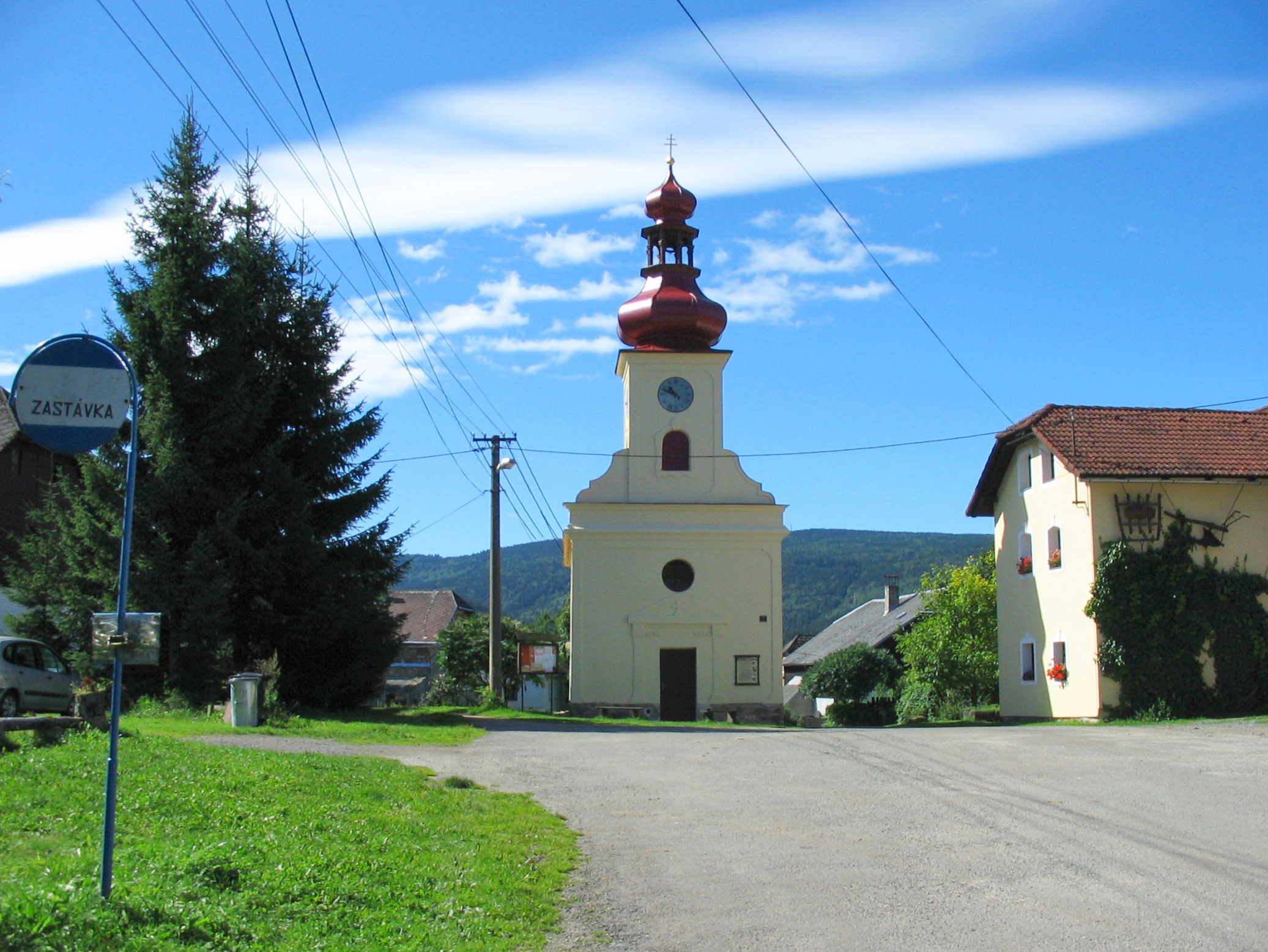 Village square of Červená, Klatovy District, Czech Republic